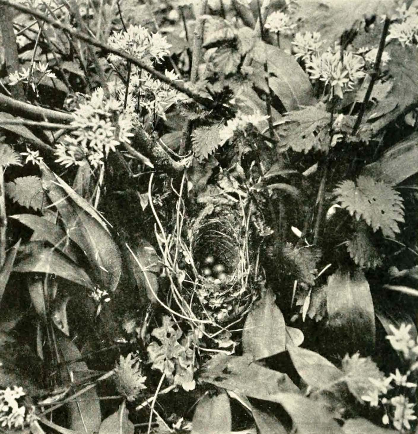 Nightingale's nest in garlic and nettles. (Photographed by N. F. Ticehurst. 1912)